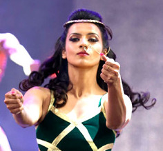 Actress Sruthi Hariharan performing at the 61st Filmfare South Awards